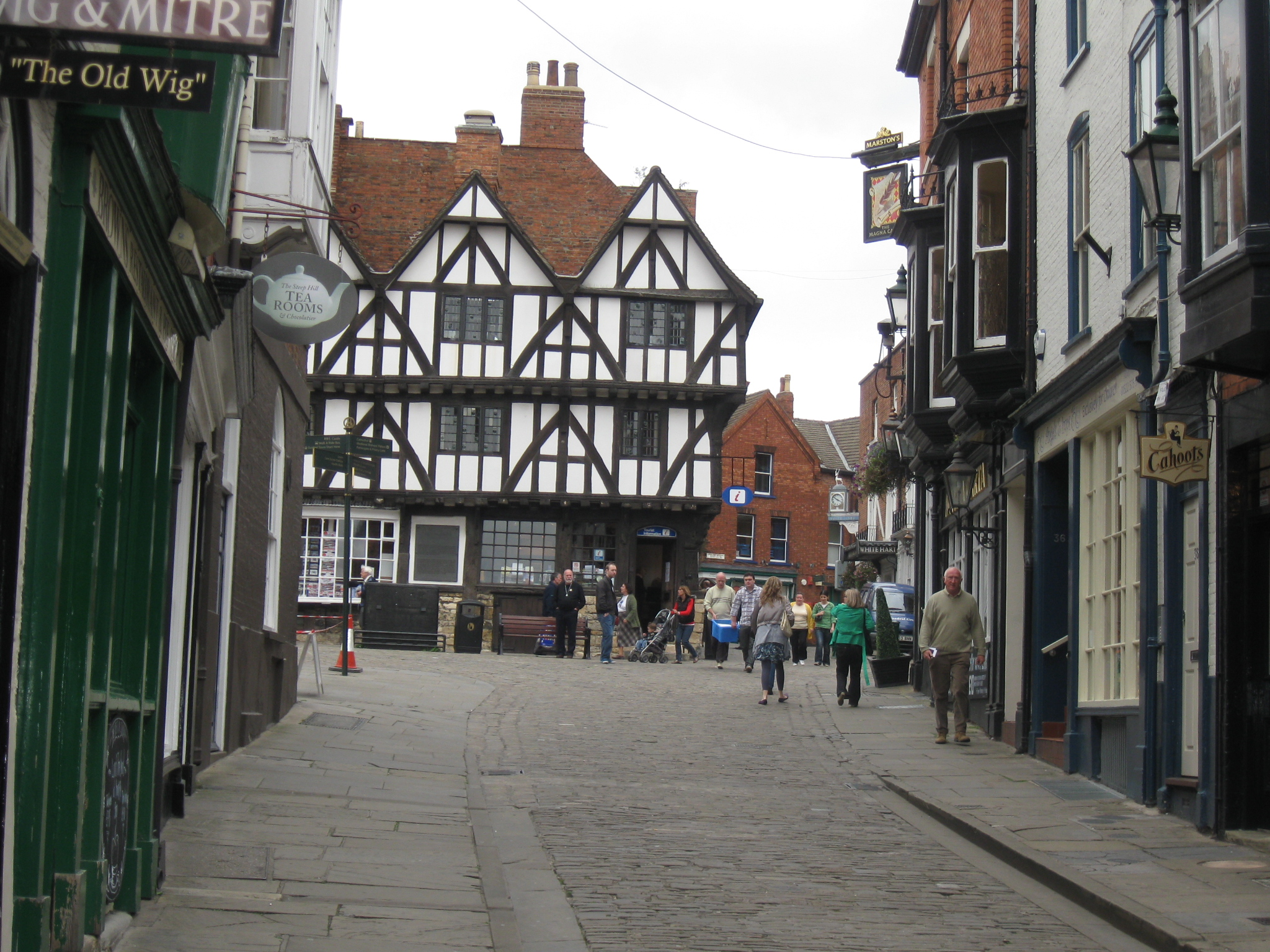 Lincolnshire Steep Hill